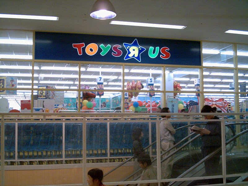 Toysrus-Shop_japan photography day, 2006.10.29. photography person kici